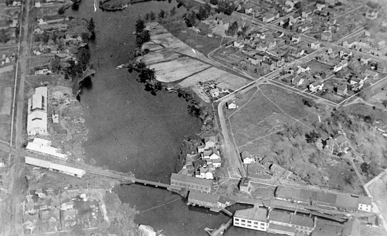 View of Gananoque, Ontario taken from an airplane.